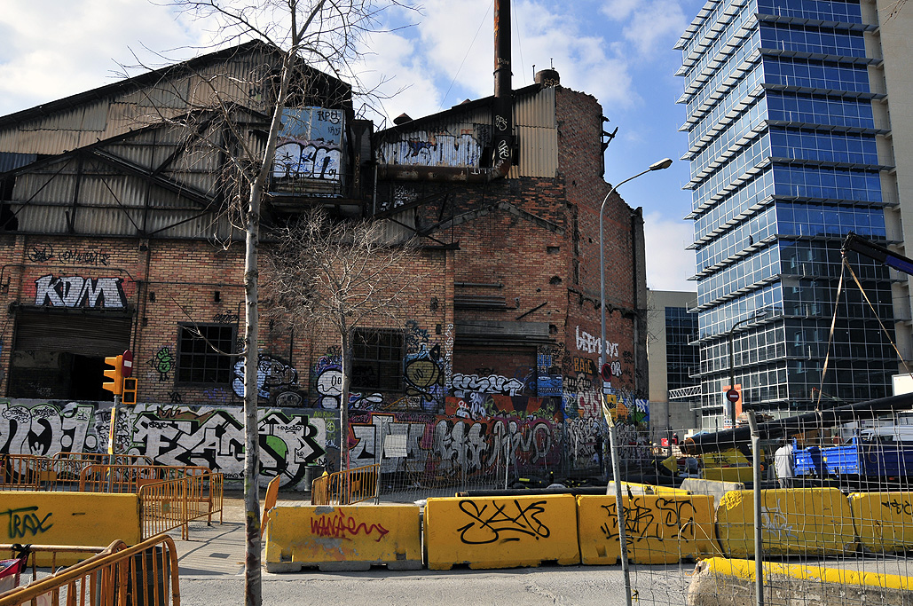 View of Carrer de Pallars (Poblenou, Barcelona) with underground infrastructure being completely renovated.